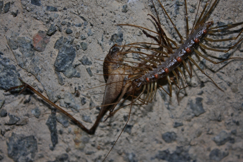 With the remains of a large cricket, inside a water catchment on Lantau.